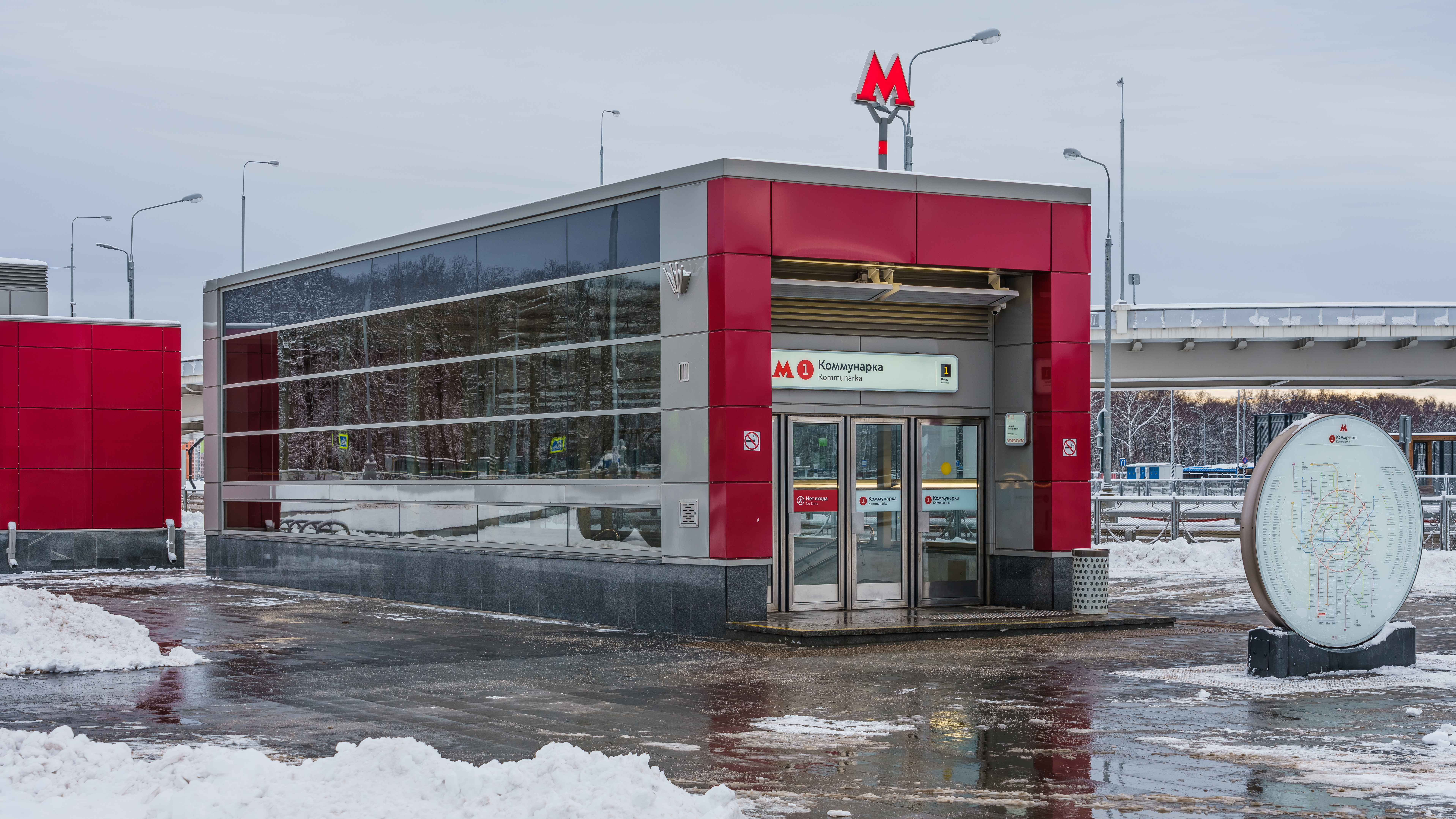 An entrance of Kommunarka metro station in Moscow, Russia